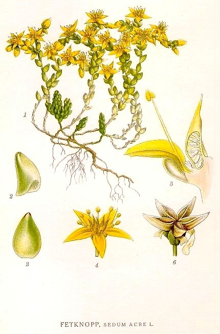 Original Description Fetknopp, Sedum acre L.